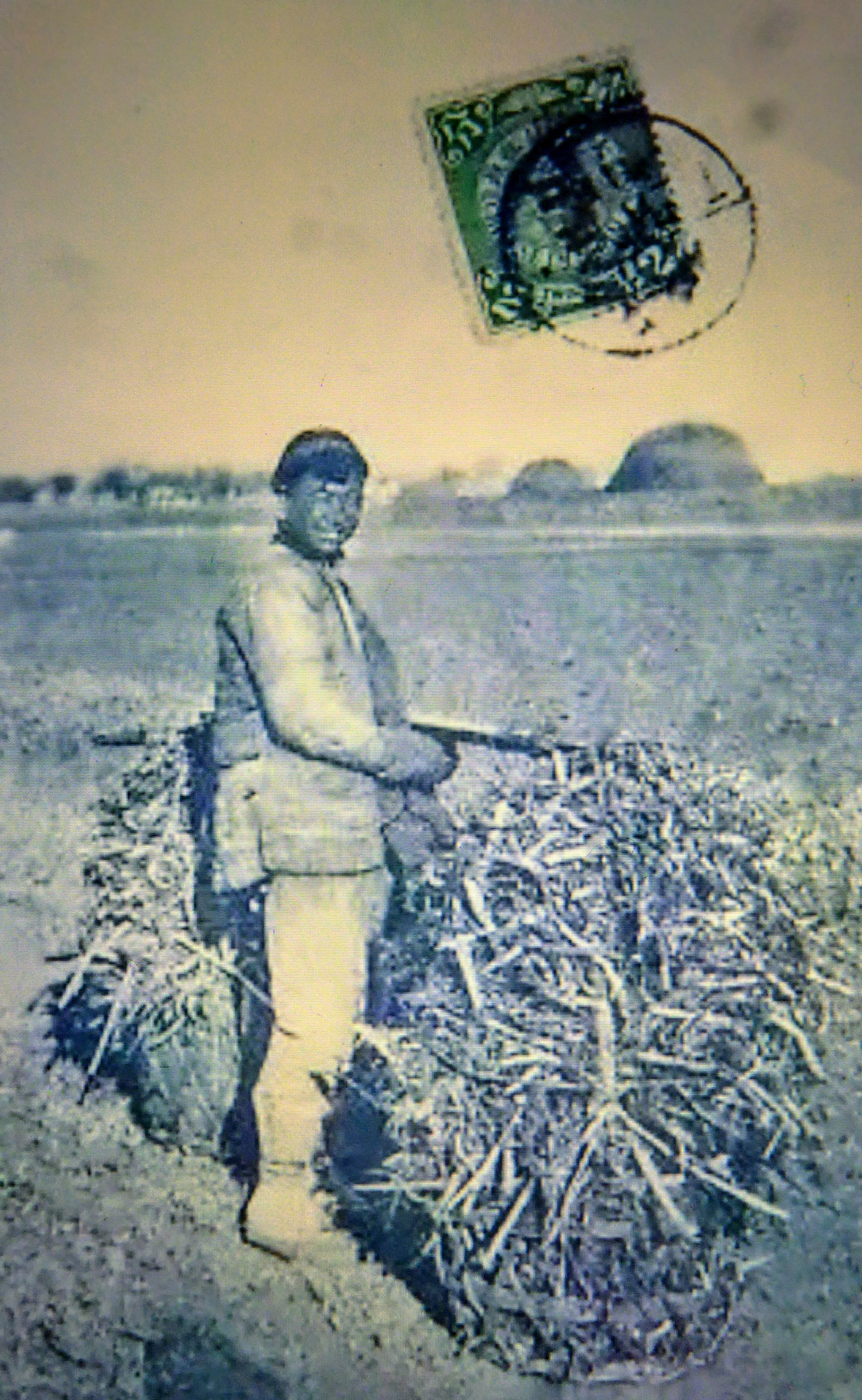 Chinese Peasant ca 1909 in Tianjing 天津.